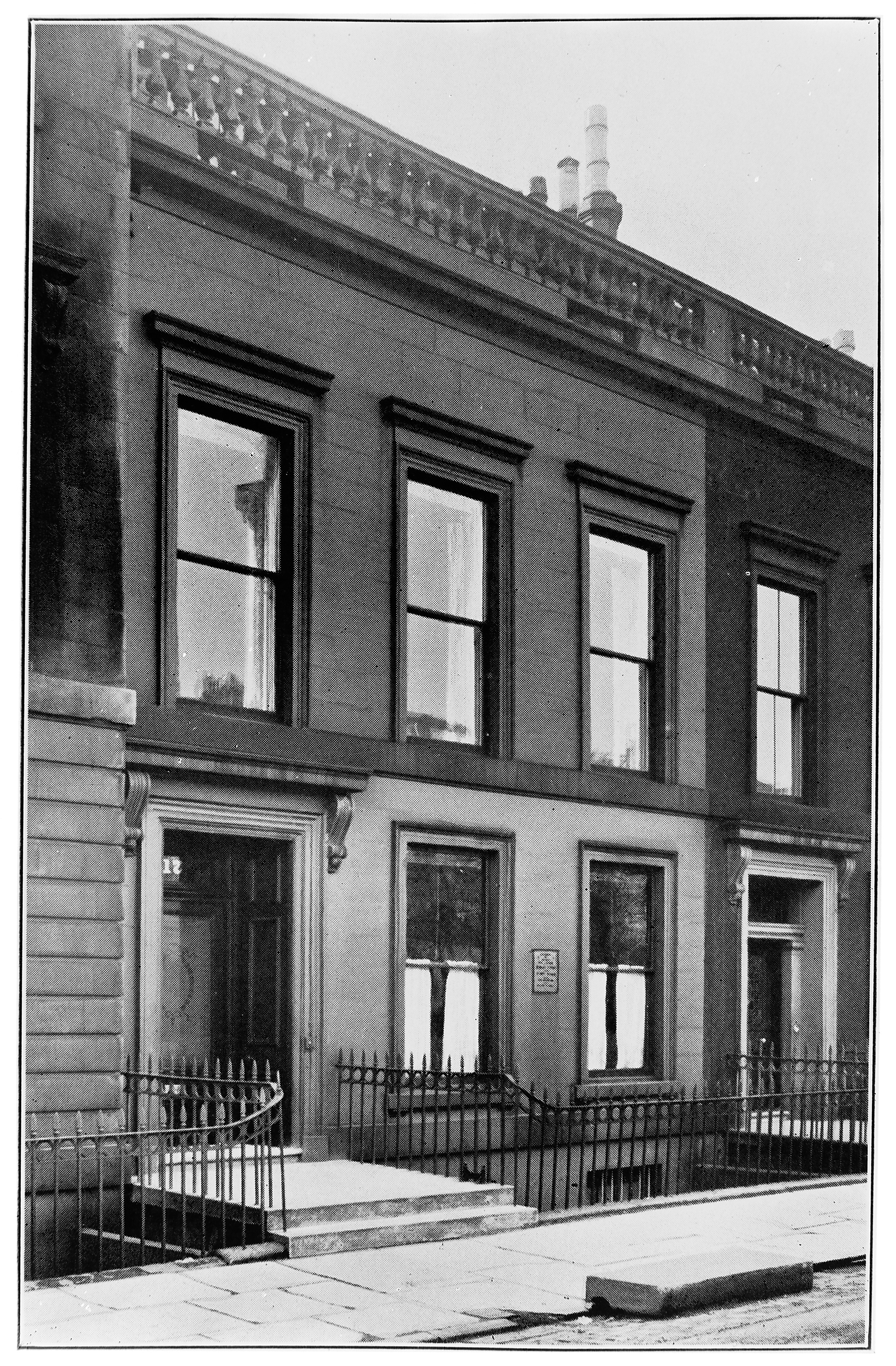 Lister's Glasgow residence, 17 Woodside Place. General Collections Keywords: Joseph Lister